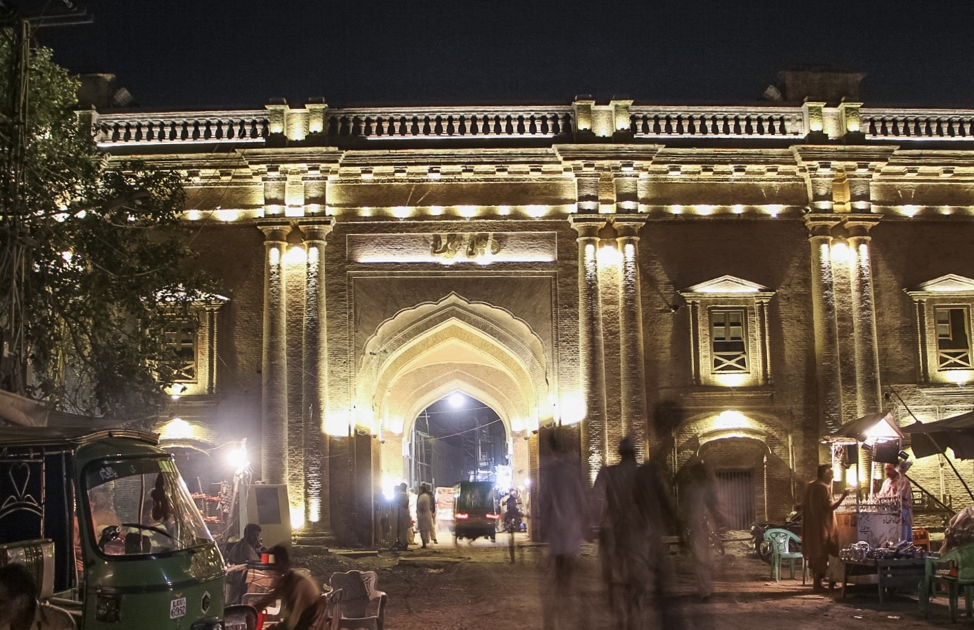 A view of Lahore's Delhi Gate.